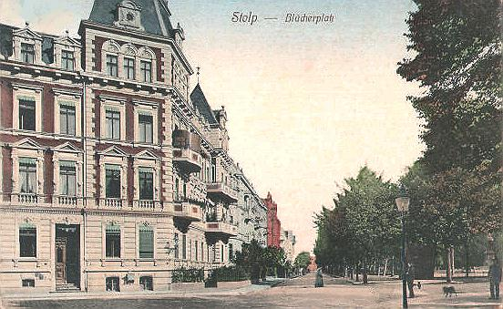 Bluecherplatz in Słupsk, before 1945 Stolp), Pomeranian Voivodeship, Poland